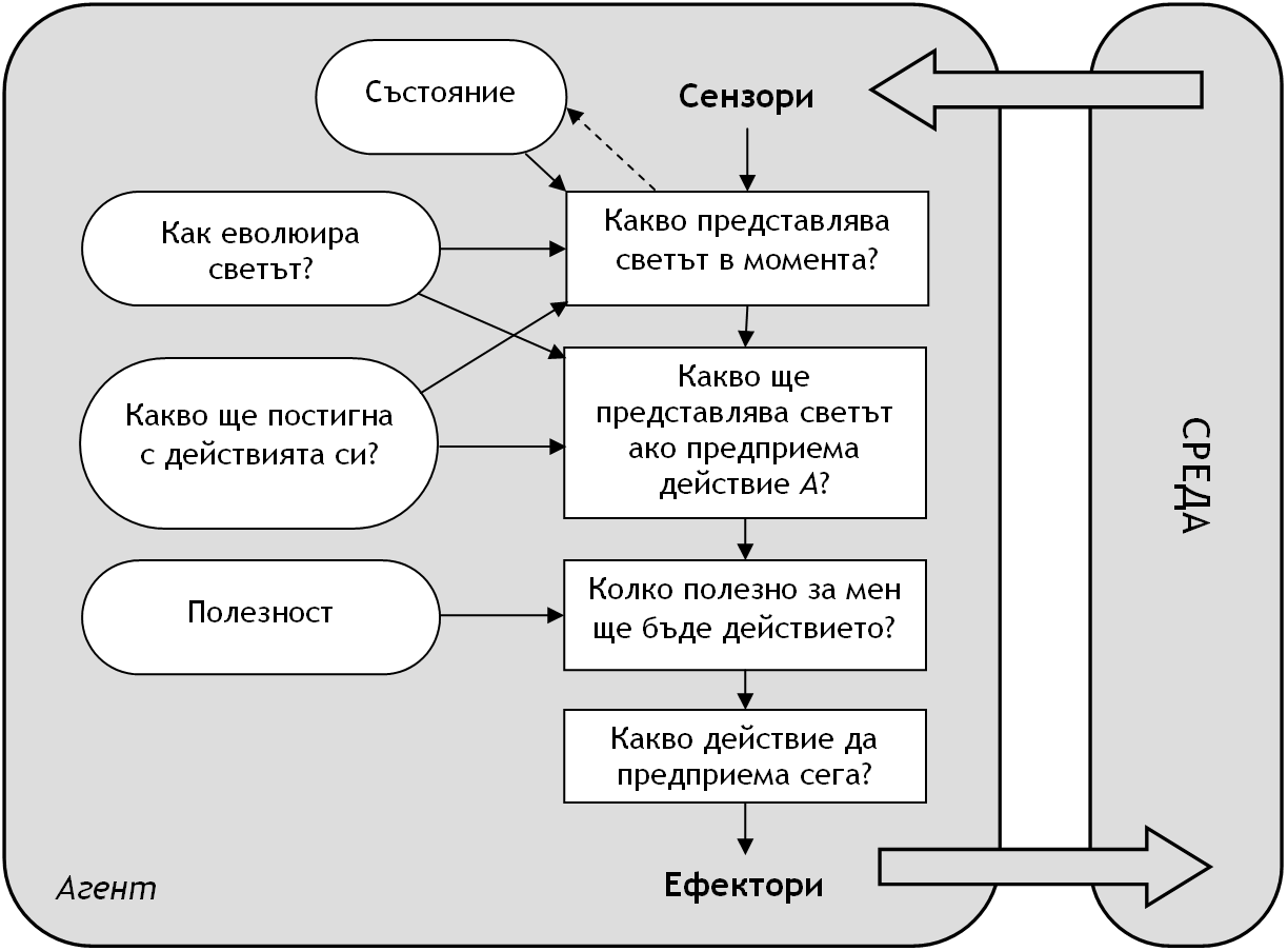 Diagram of a utility based intelligent agent. In Bulgarian.